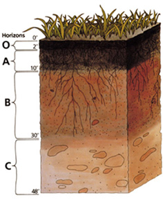 Graphic of a soil profile showing O, A, B, and C horizons. The depth numbers are approximately. O ( 0" - 2" ): Organic A ( 2" - 10" ): Surface B ( 10" - 30" ): Subsoil C ( 30" - 48" ): Substratum R ( not shown on graphic ): Parent material, e.g. bedrock